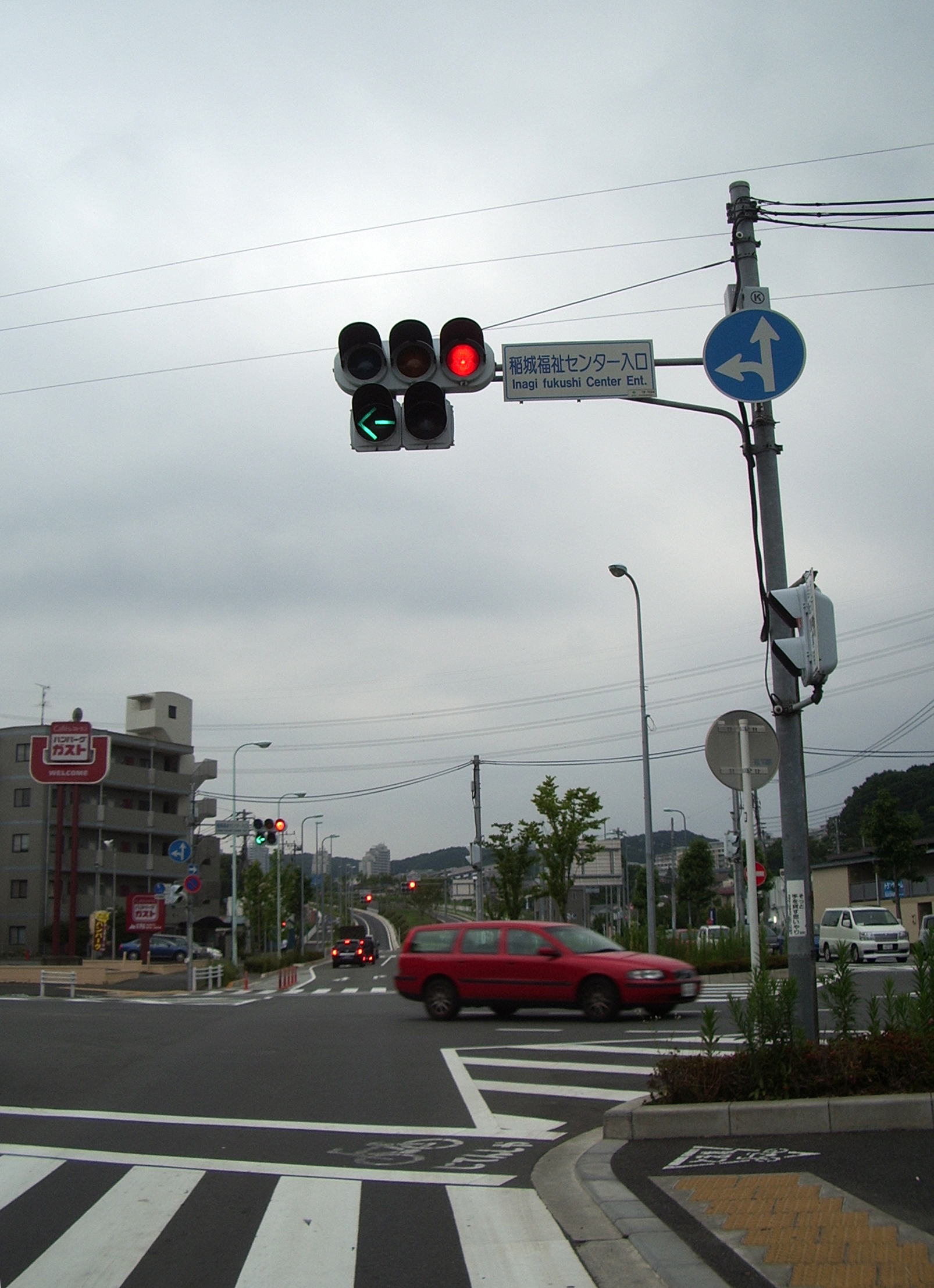 hukushi center iriguchi crossing, Inagi, Tokyo